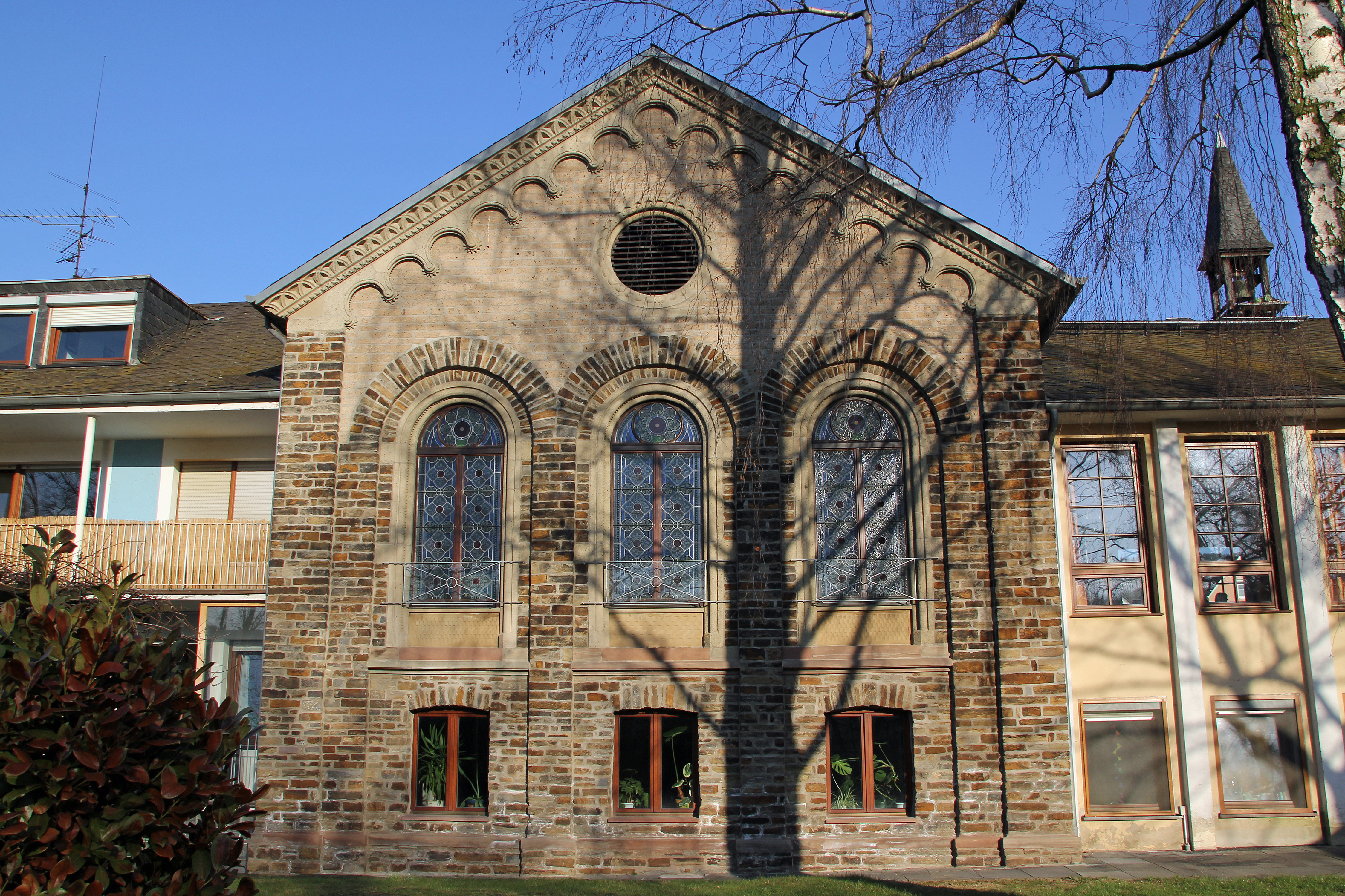 Lutherkapelle in Koblenz